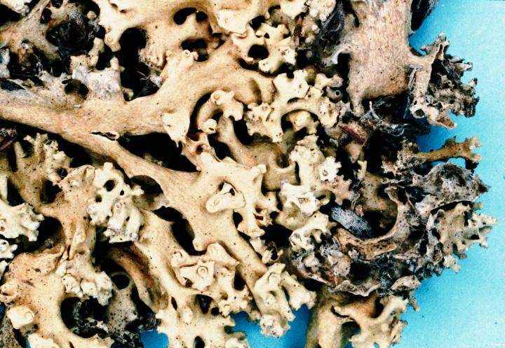 Cladonia caroliniana (Schwein.) Tuck. (photograph of a herbarium specimen) Growing on a granite outcrop near Mitchell's Mill and the Little River (2 miles NE of Rulesville), Wake County, North Carolina, USA; collected by P. Shriver, identified by Arnold Norden (No. L-11, 19 Oct 1974); specimen is now in the Lichen Herbarium of the New York Botanical Garden.